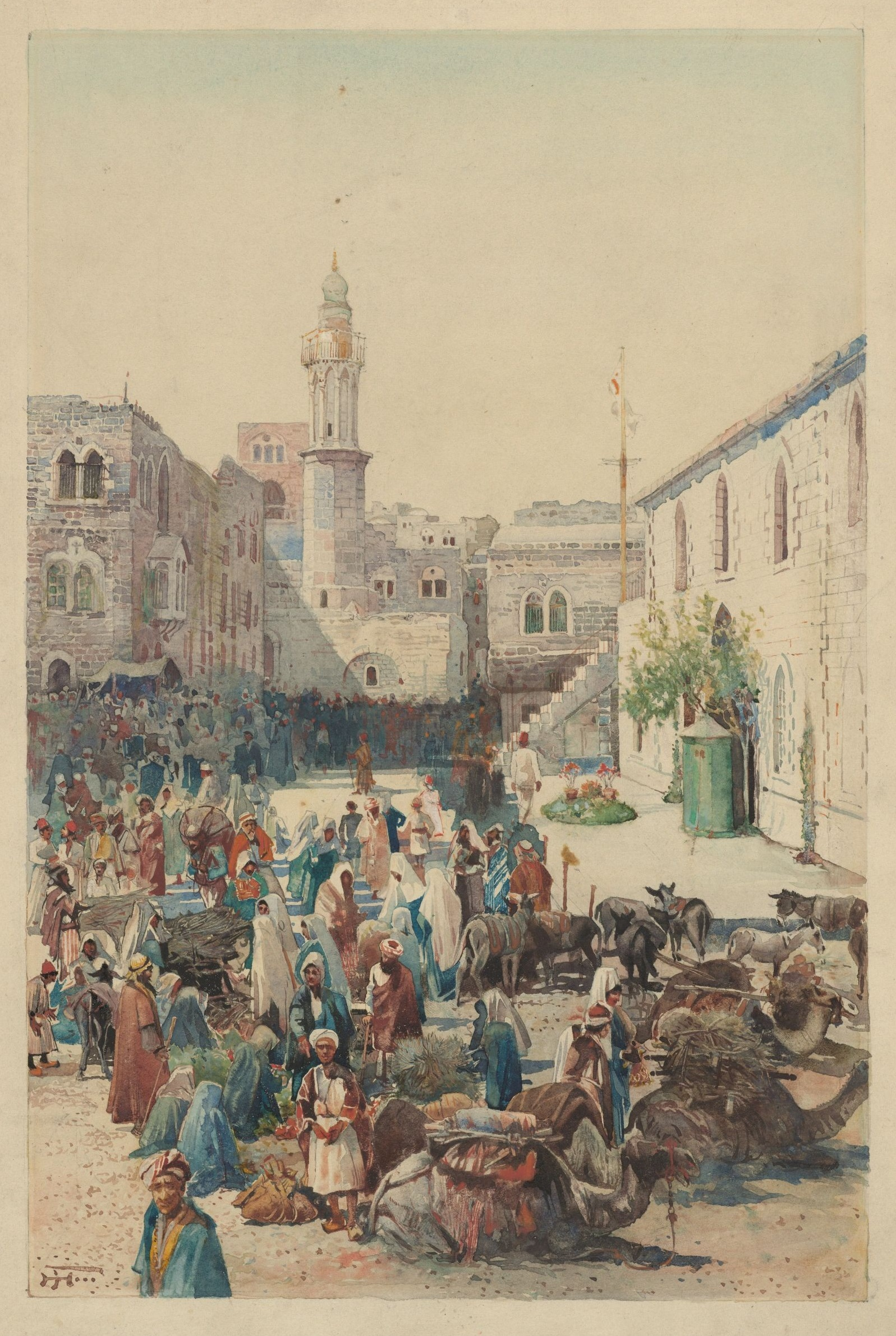 "The market-place, Bethlehem" by Harry Fenn (1838-1911). Illustration for Henry Van Dyke’s Out-of-doors in the Holy Land, 1908. MS Typ 192 (6), Houghton Library, Harvard University